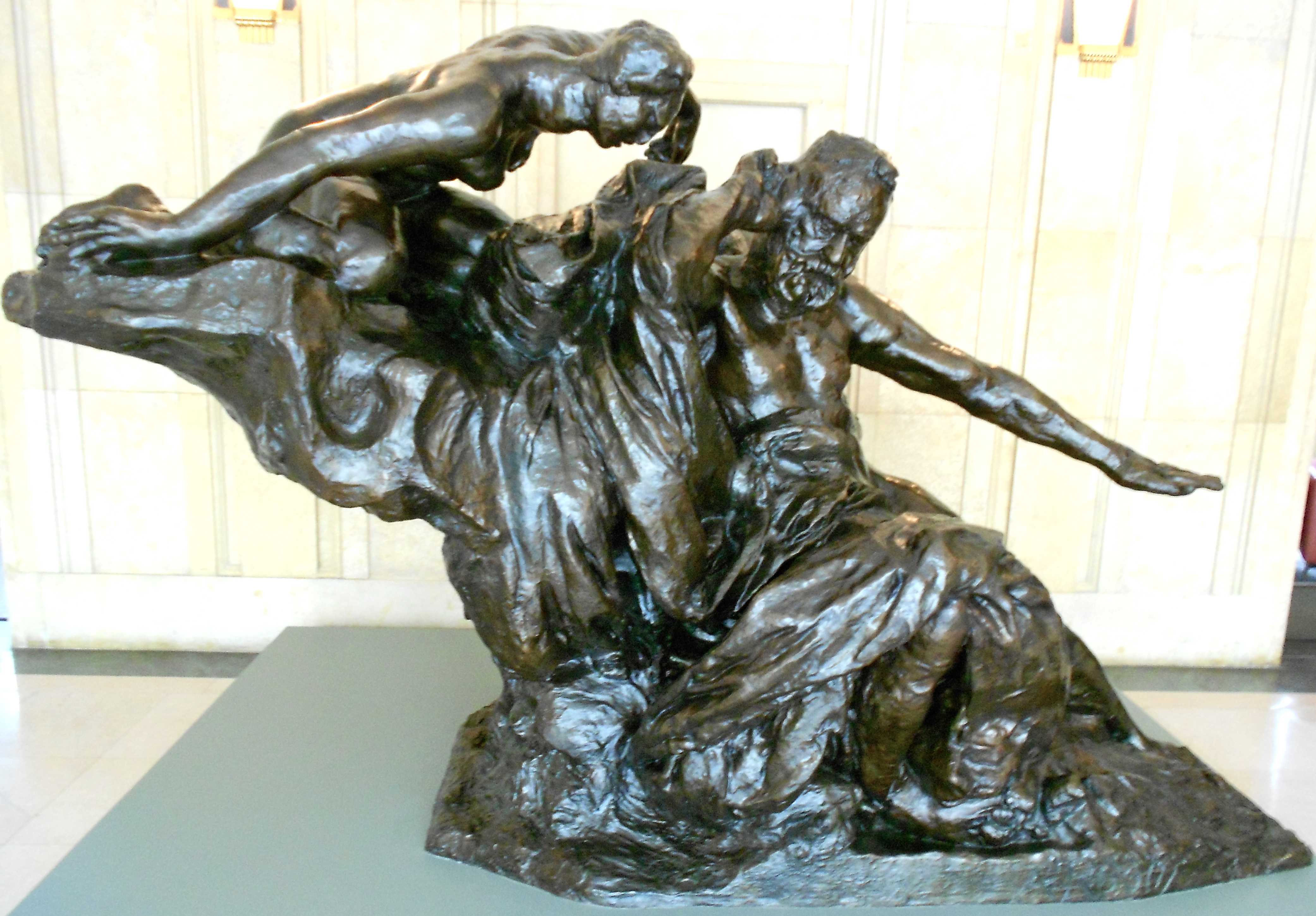 Rodin's monument to Victor Hugo, made in plaster in 1897, cast in 1964. No copyright mark, therefore in the public domain. In Philadelphia Museum of Art